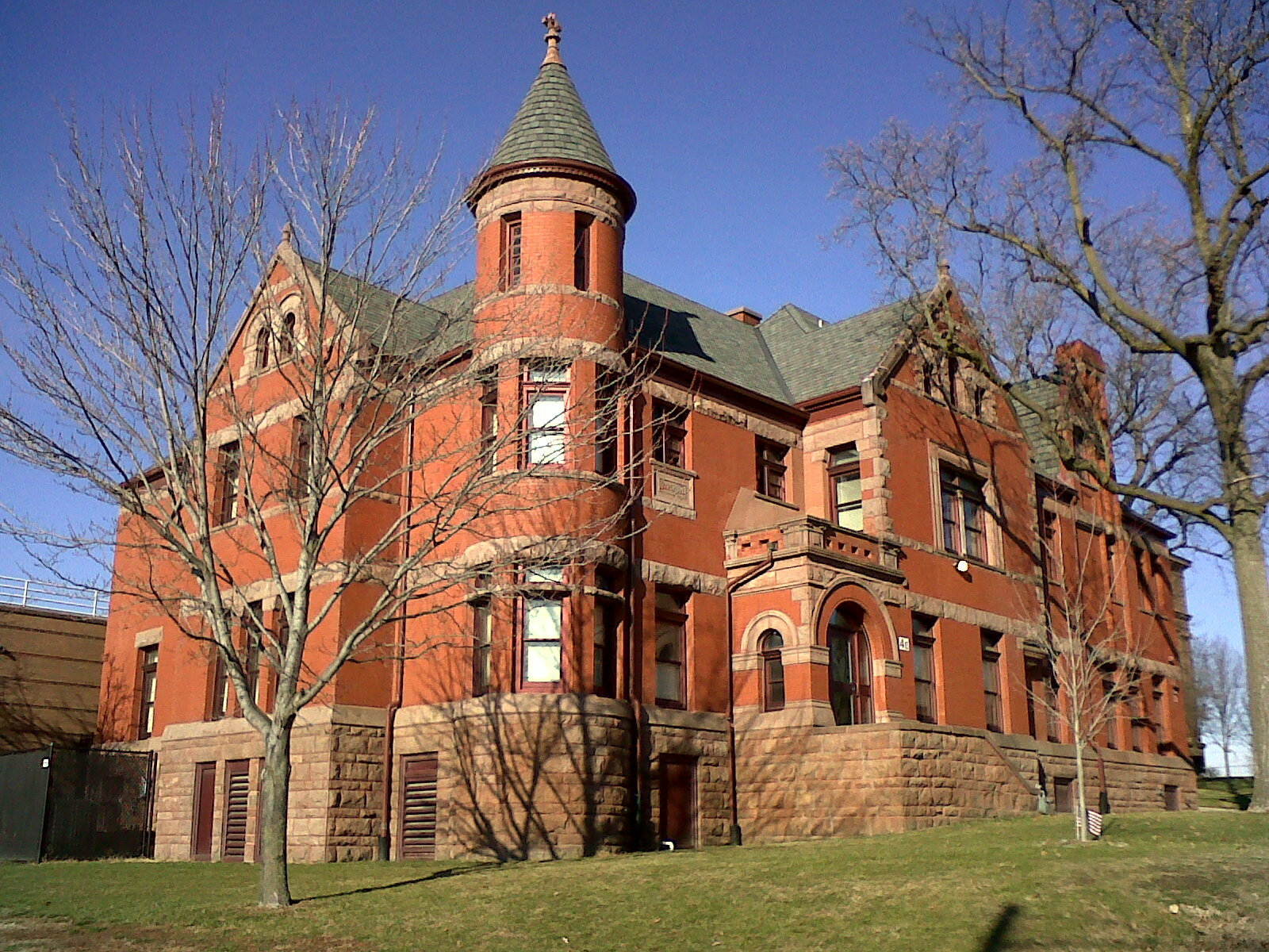 Kemper Hall in Davenport, Iowa was built as a school for boys by the Episcopal Diocese of Iowa in the 19th century. In the early 20th century it became part of Davenport High School, now Central High School.